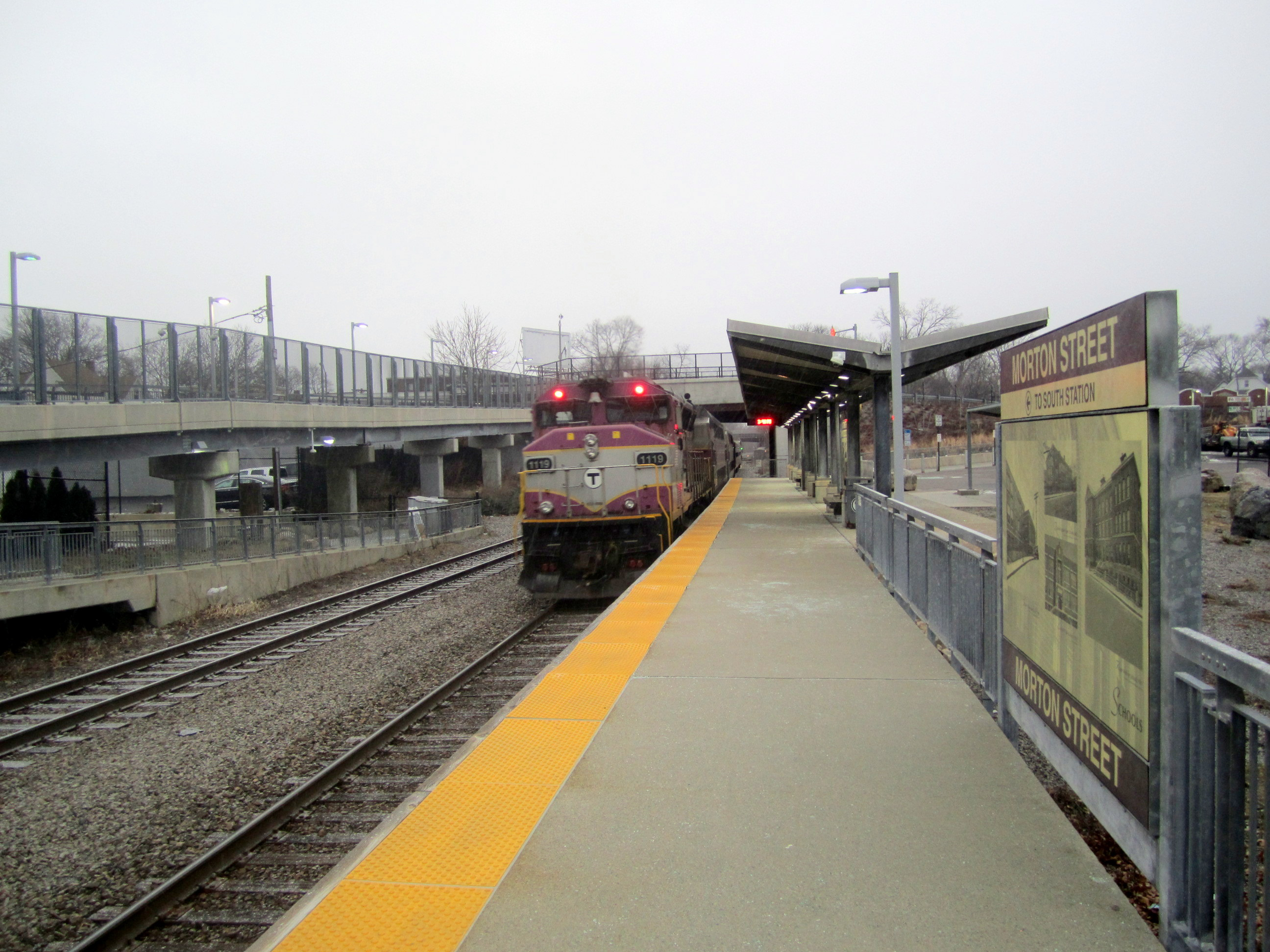 Inbound train at Morton Street station in December 2017